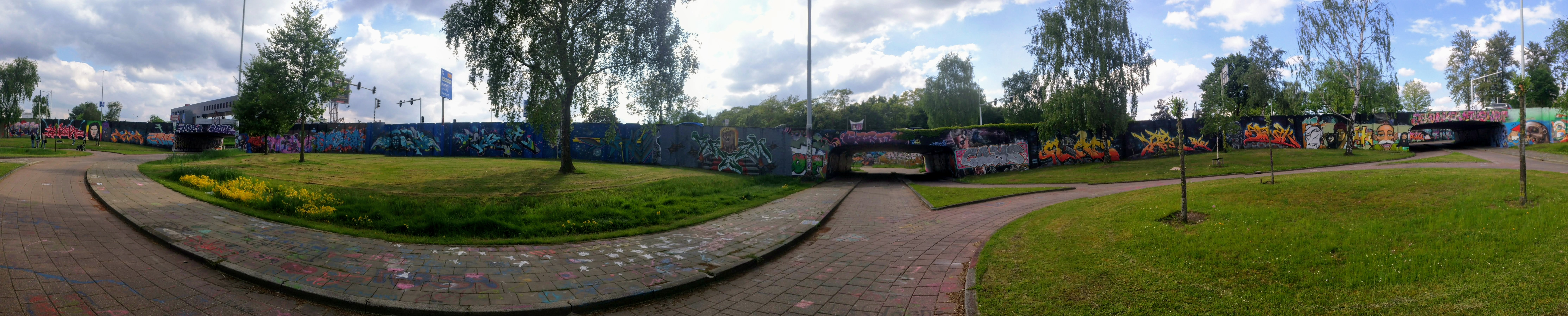 Panorama of Berenkuil, Eindhoven